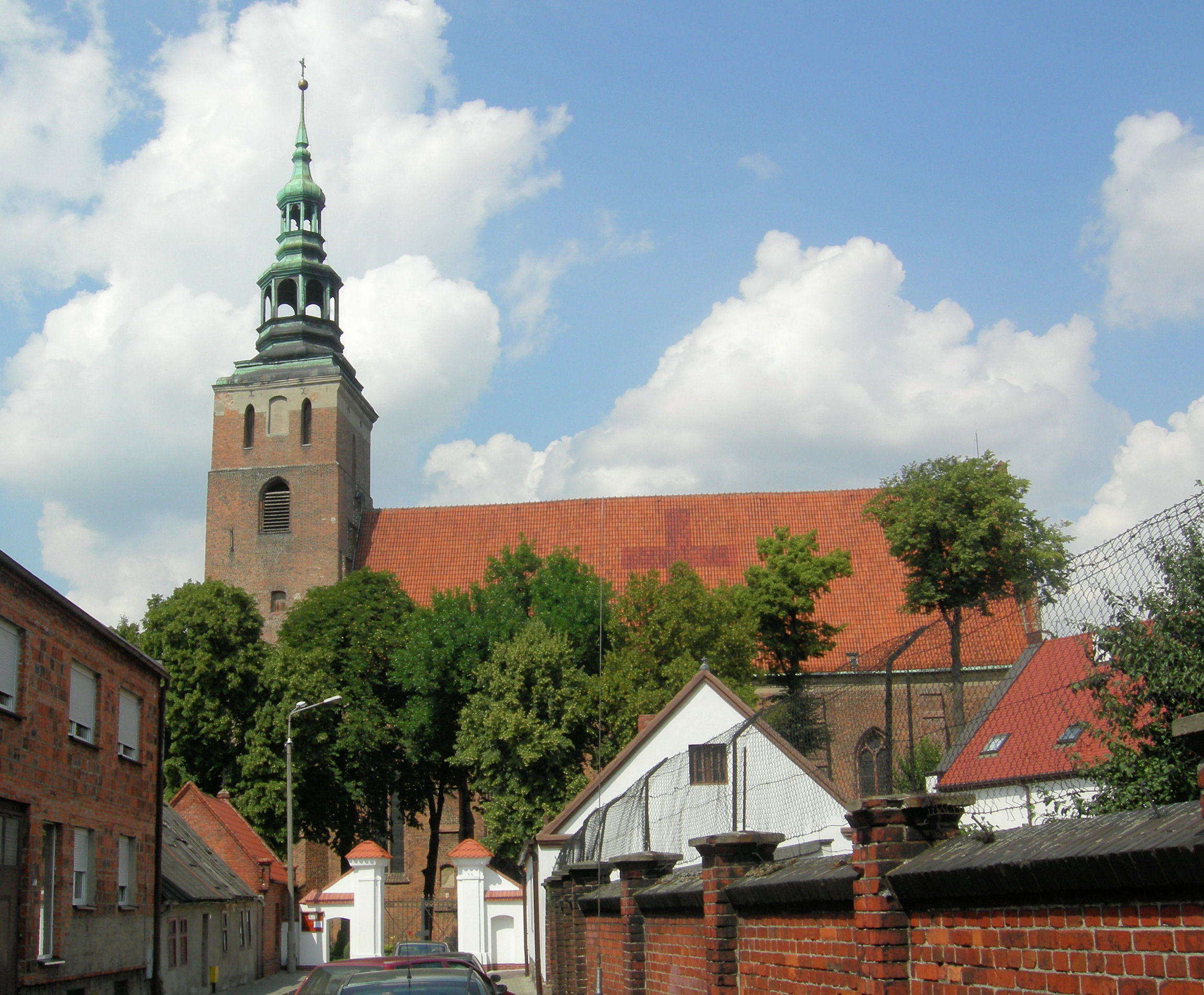 Śrem, Church of the Assumption of the Blessed Virgin Mary.